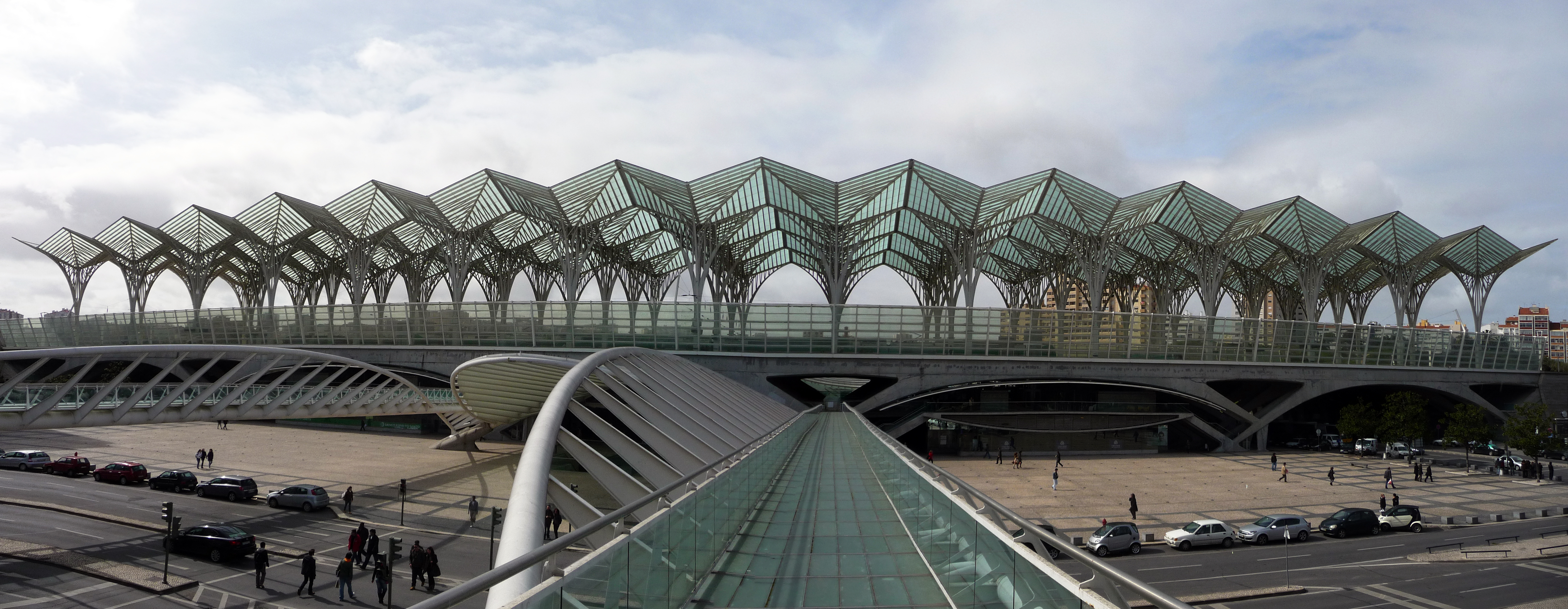 Gare do Oriente train station, Lisbon, Portugal